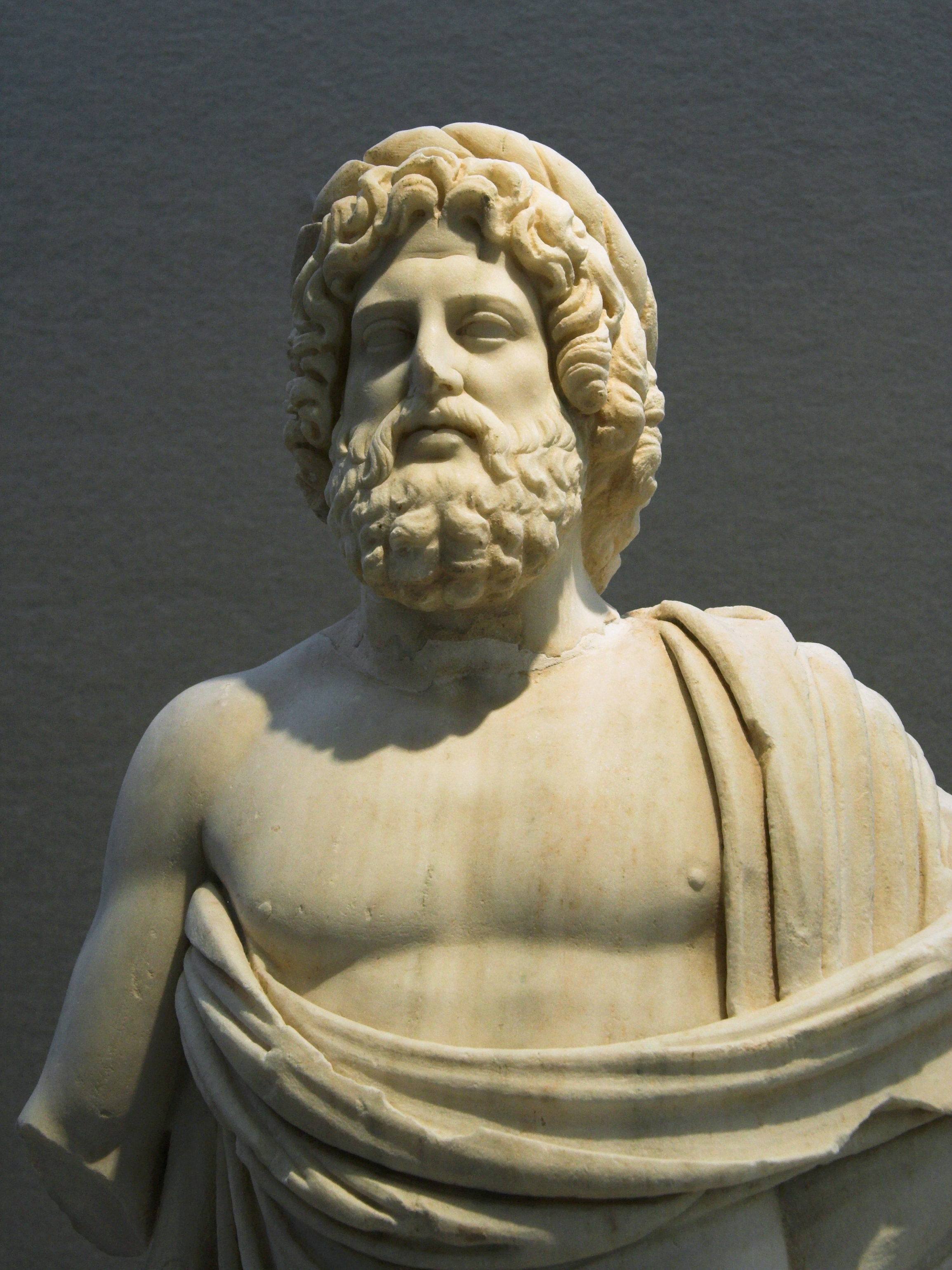 Asclepius, marble. Achradina (Venus nymphaeum, near the hospital), Sicily. Roman copy after Greek original from 4th century BC. The statue is of the Giustini-Neigebauer type. Archaeological Museum of Syracuse, inv. 696.